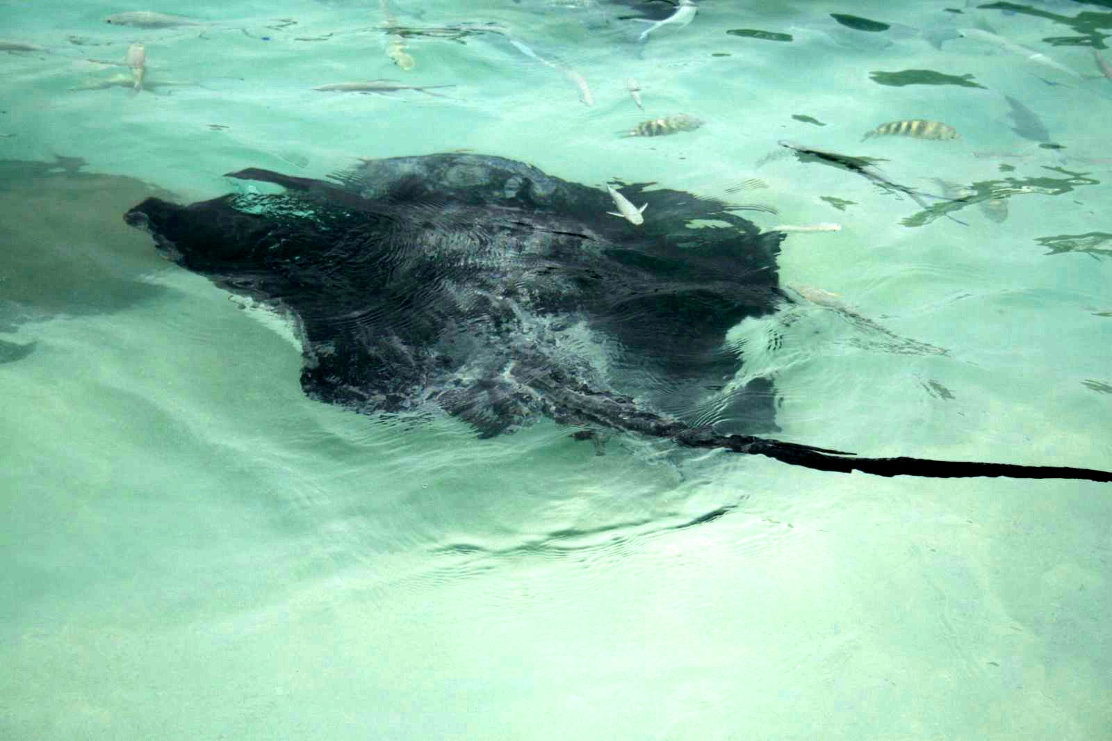 Baa Atoll. Reethi Beach Resort (RBR). Ray / Rochen